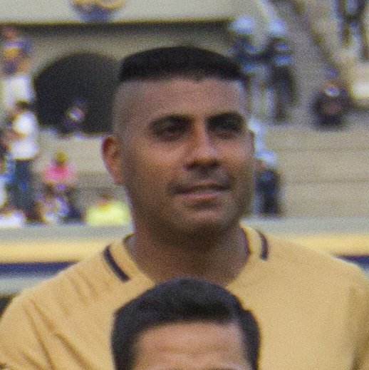 Club Universidad Nacional